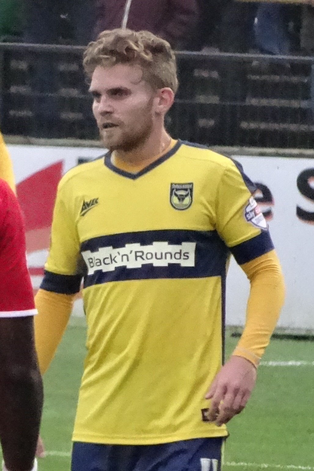 Alfie Potter playing for Oxford United against York City at Bootham Crescent, York on 15 November 2014